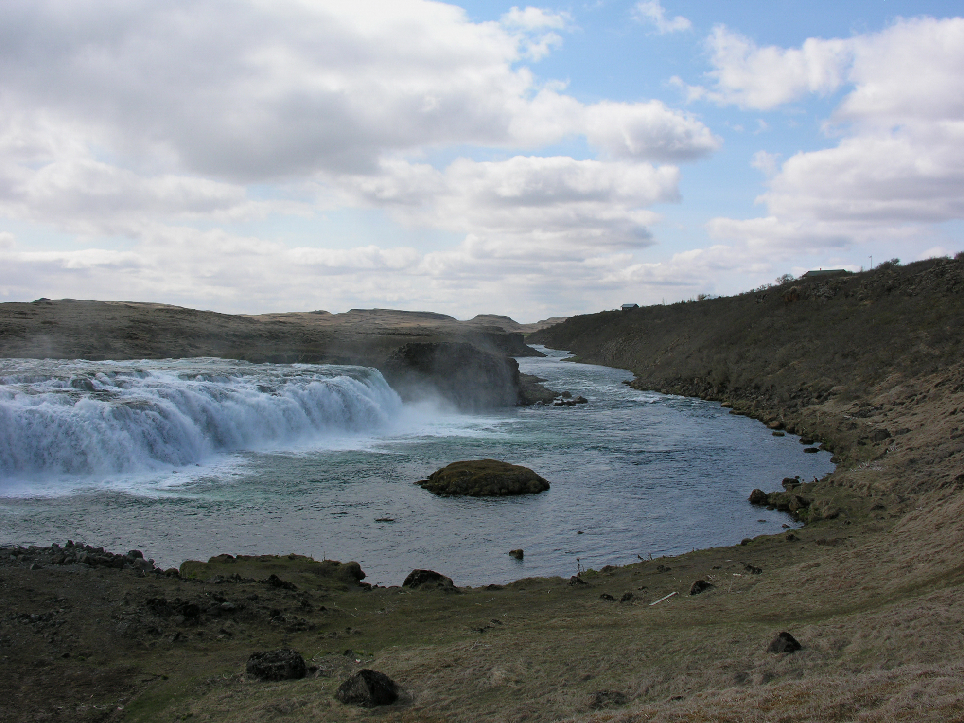 Iceland , Faxifoss